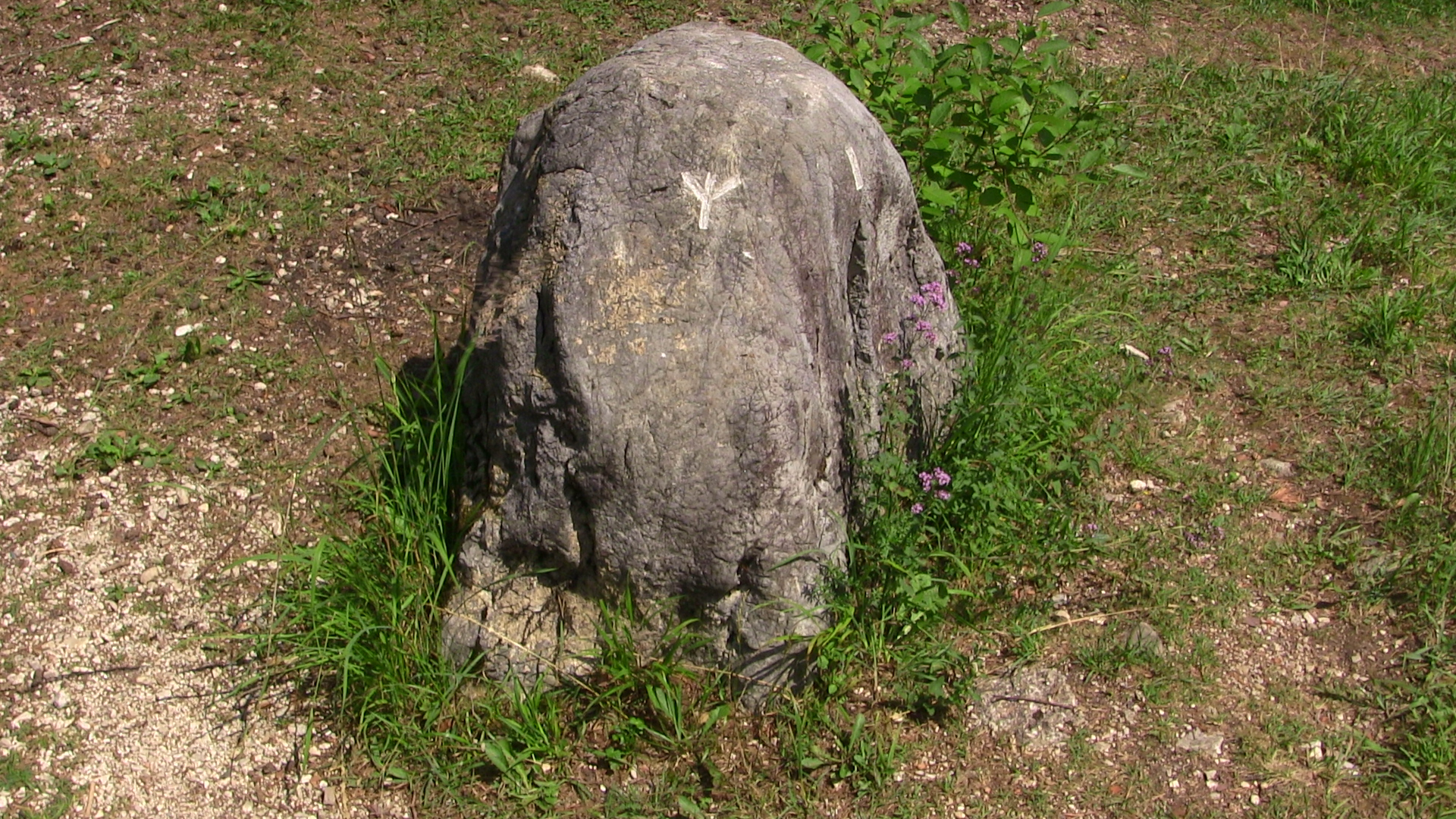 Algiz rune on a stone at the site of the tea house on the Mooslahnerkopf hill